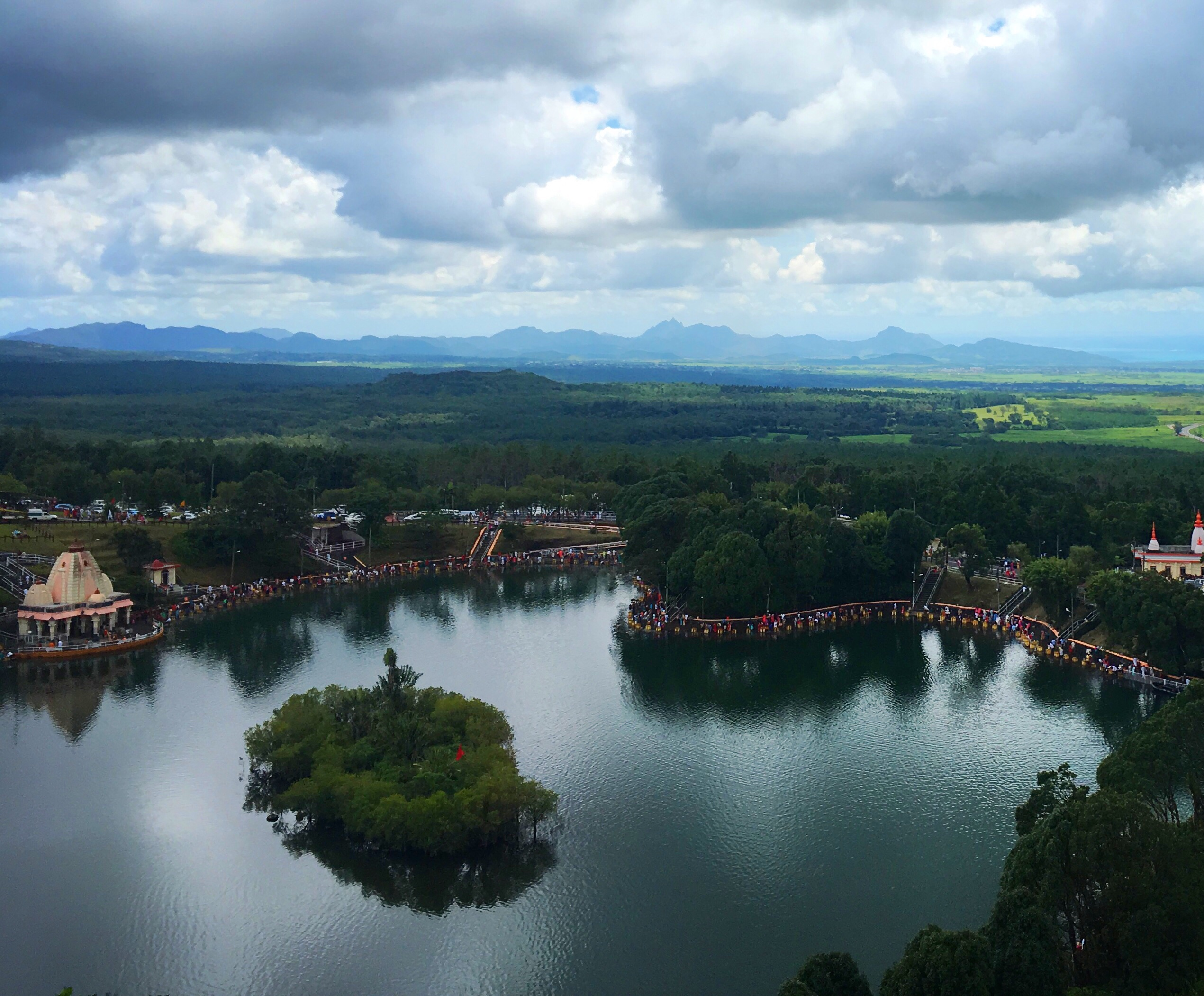 View of Grand Bassin, Savanne, Mauritius.